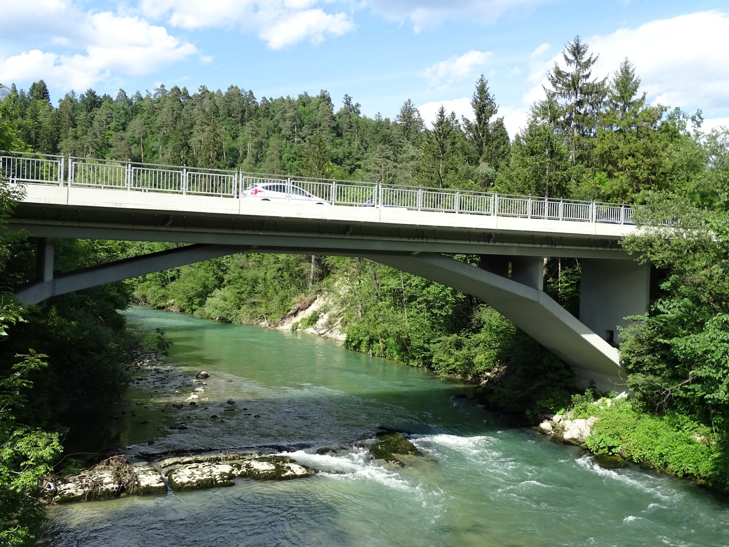 Bridge over the Sava Dolinka in Bled (Koritno)